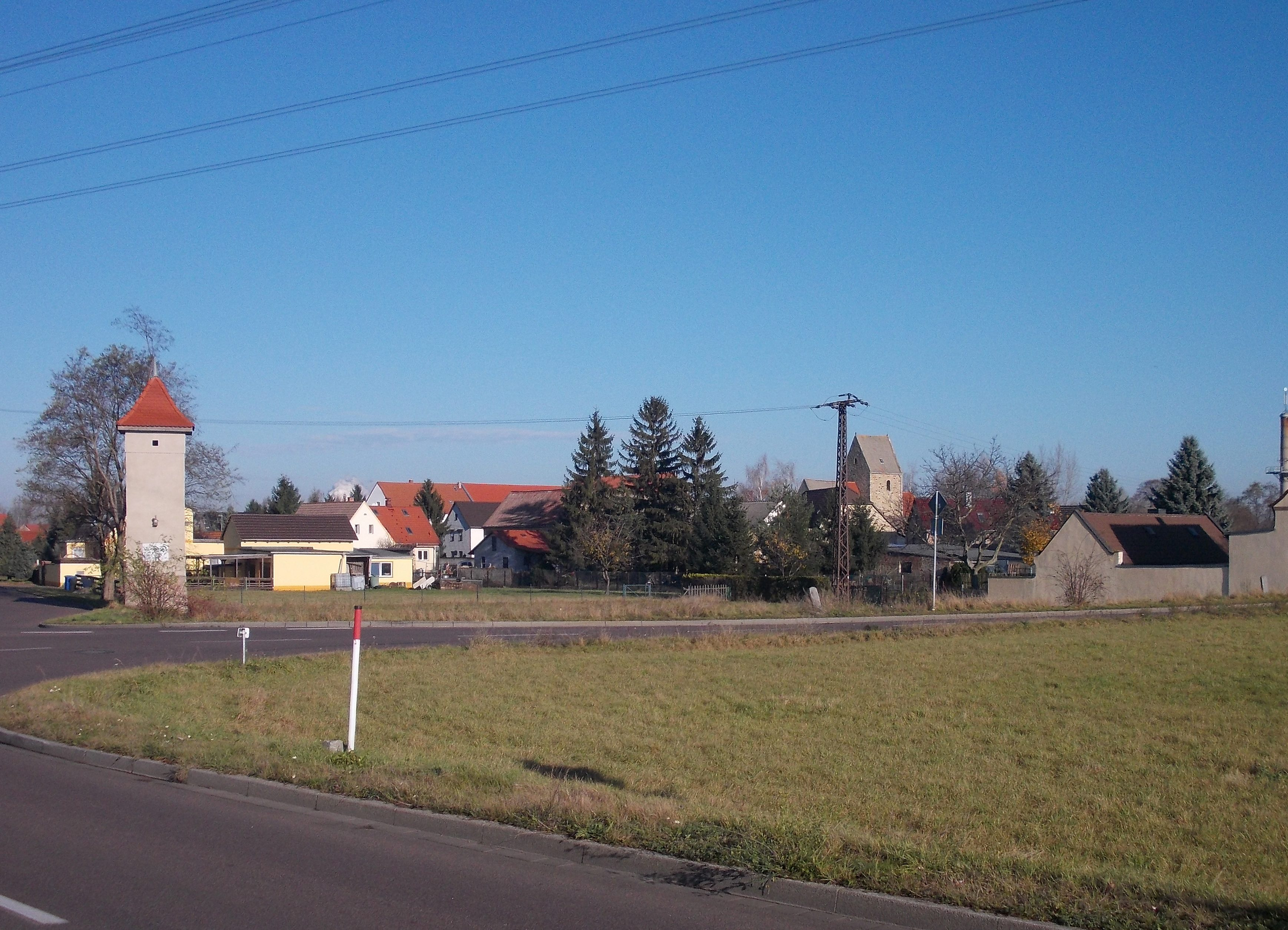 Entrance to the village of Blösien (Merseburg, district: Saalekreis, Saxony-Anhalt)